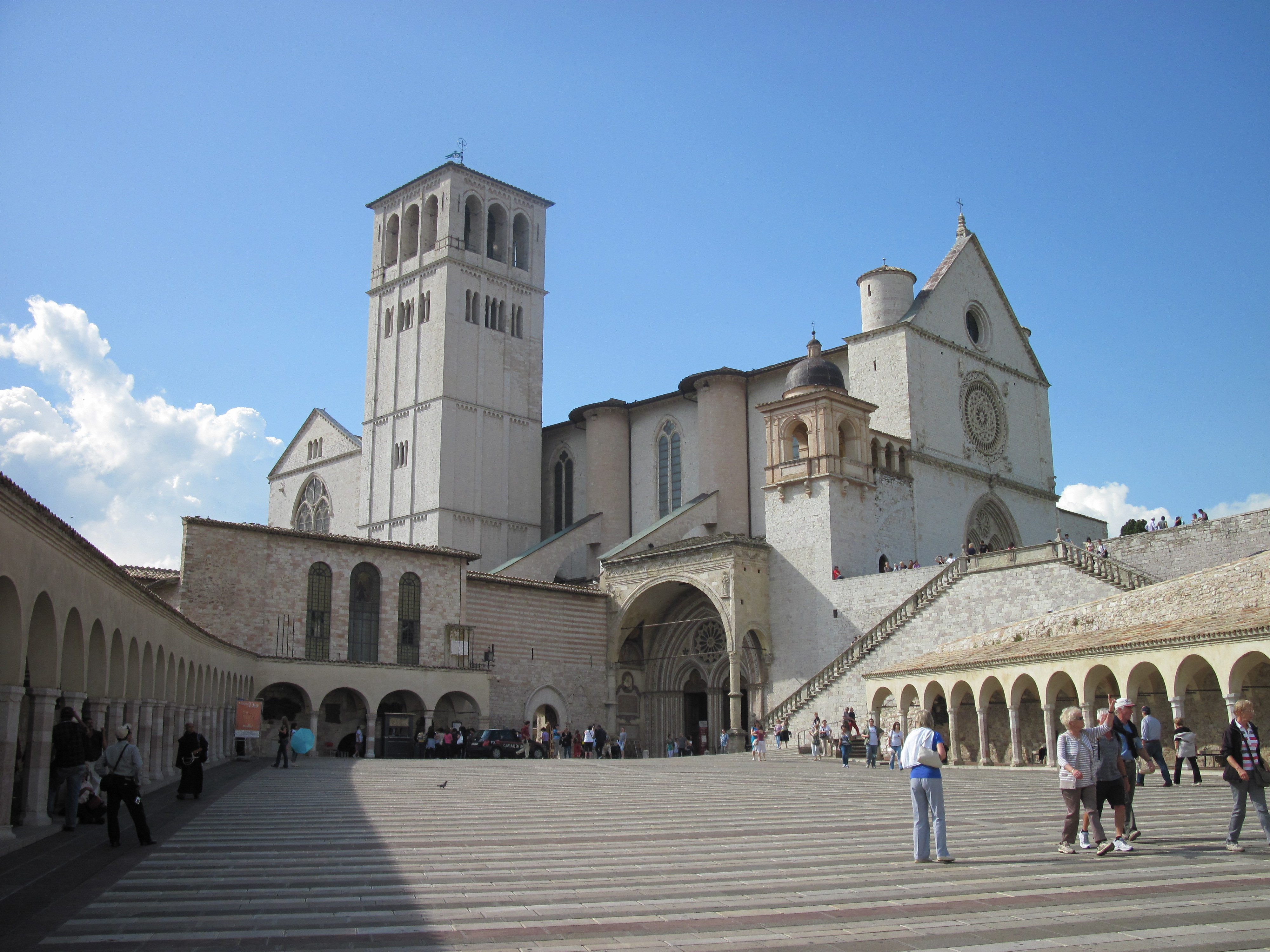 La Basilica di San Francesco d'Assisi